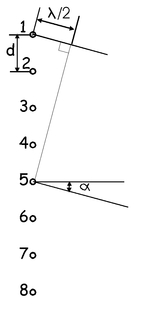 sketch 8 radiators phase difference